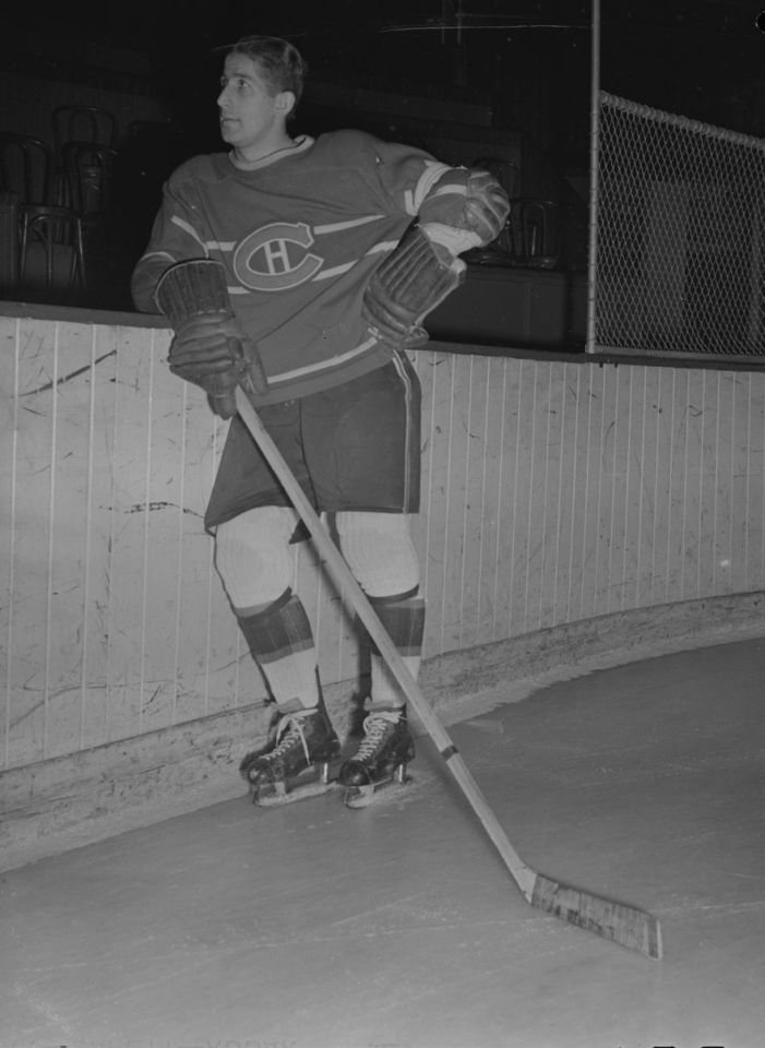 We see Elmer Lach, hockey player for the Montreal Canadiens. It is on the ice, pressed agains the band.